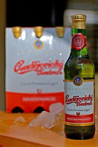 Australian Budvar